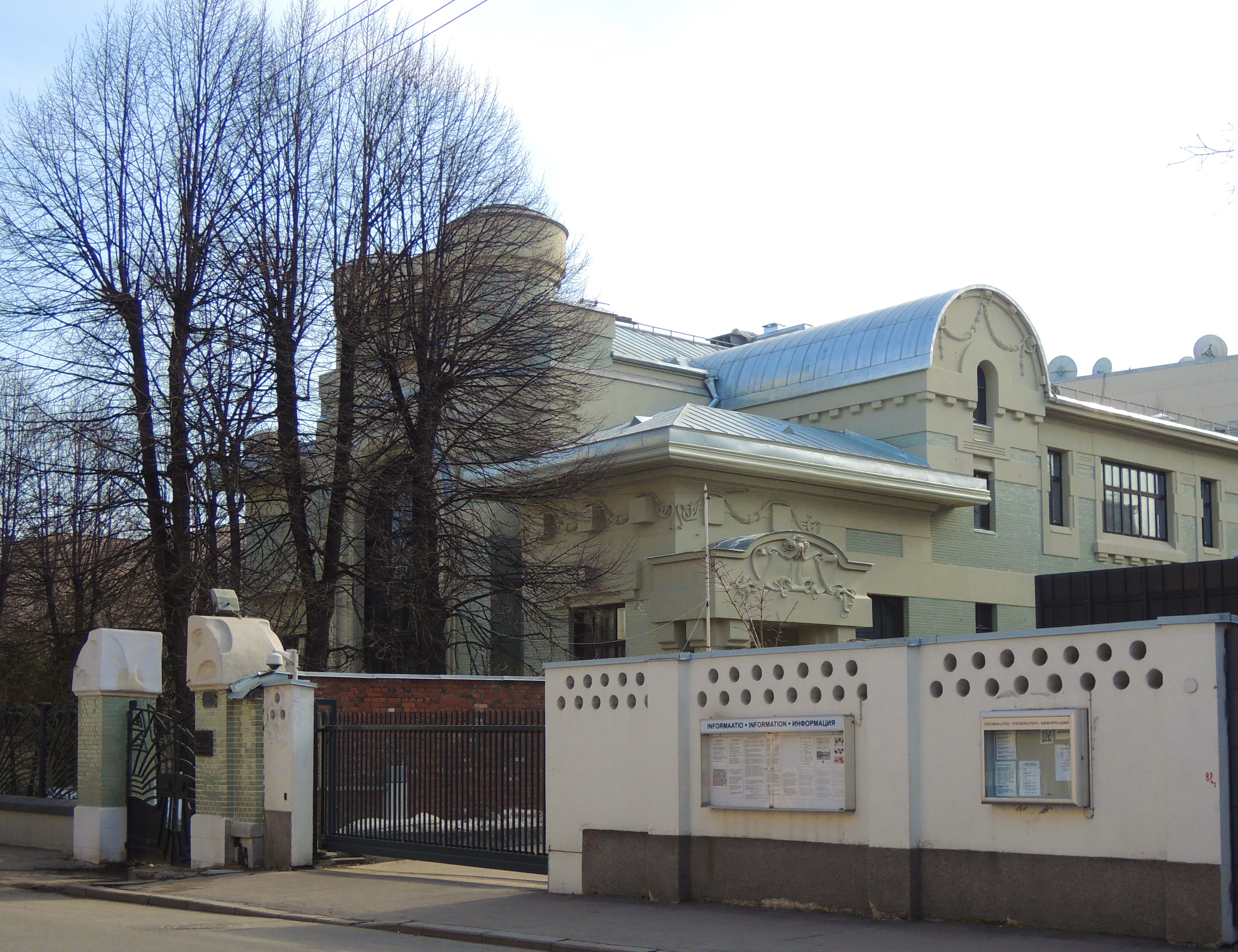 Derozhinskaya's House